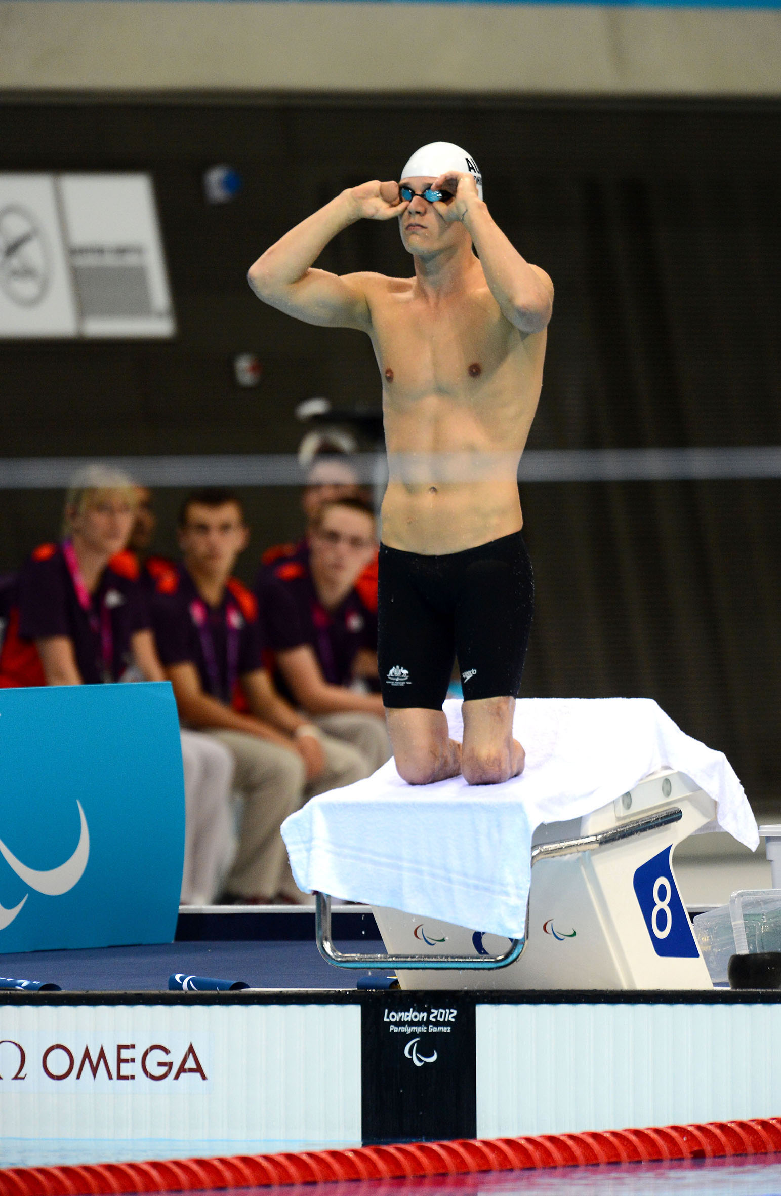 Photograph of Australian Paralympic team member Jay Dohnt at the 2012 Summer Paralympic Games in London